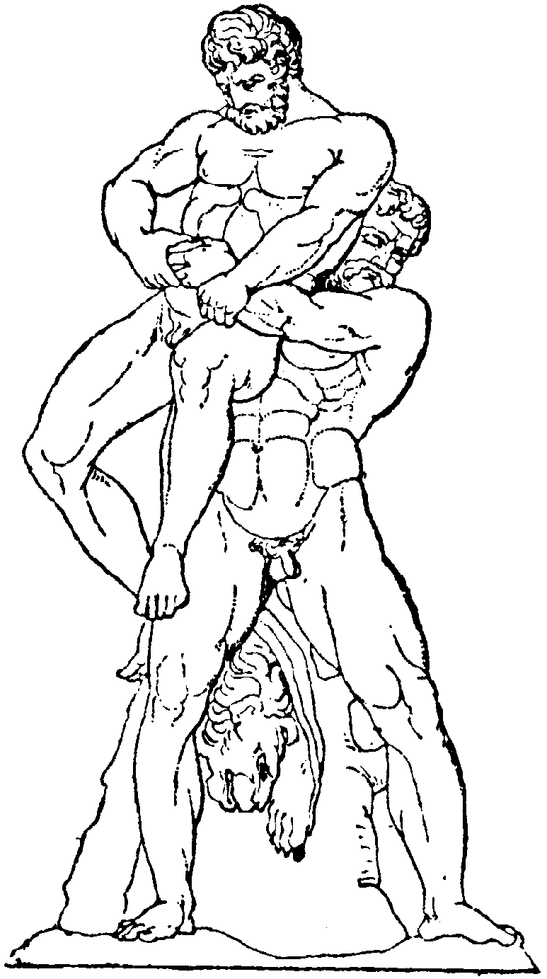 Heracles (Hercules) and Antaeus, drawing from the old Swedish encyclopedia